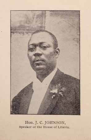 Liberian House Speaker J. C. Johnson